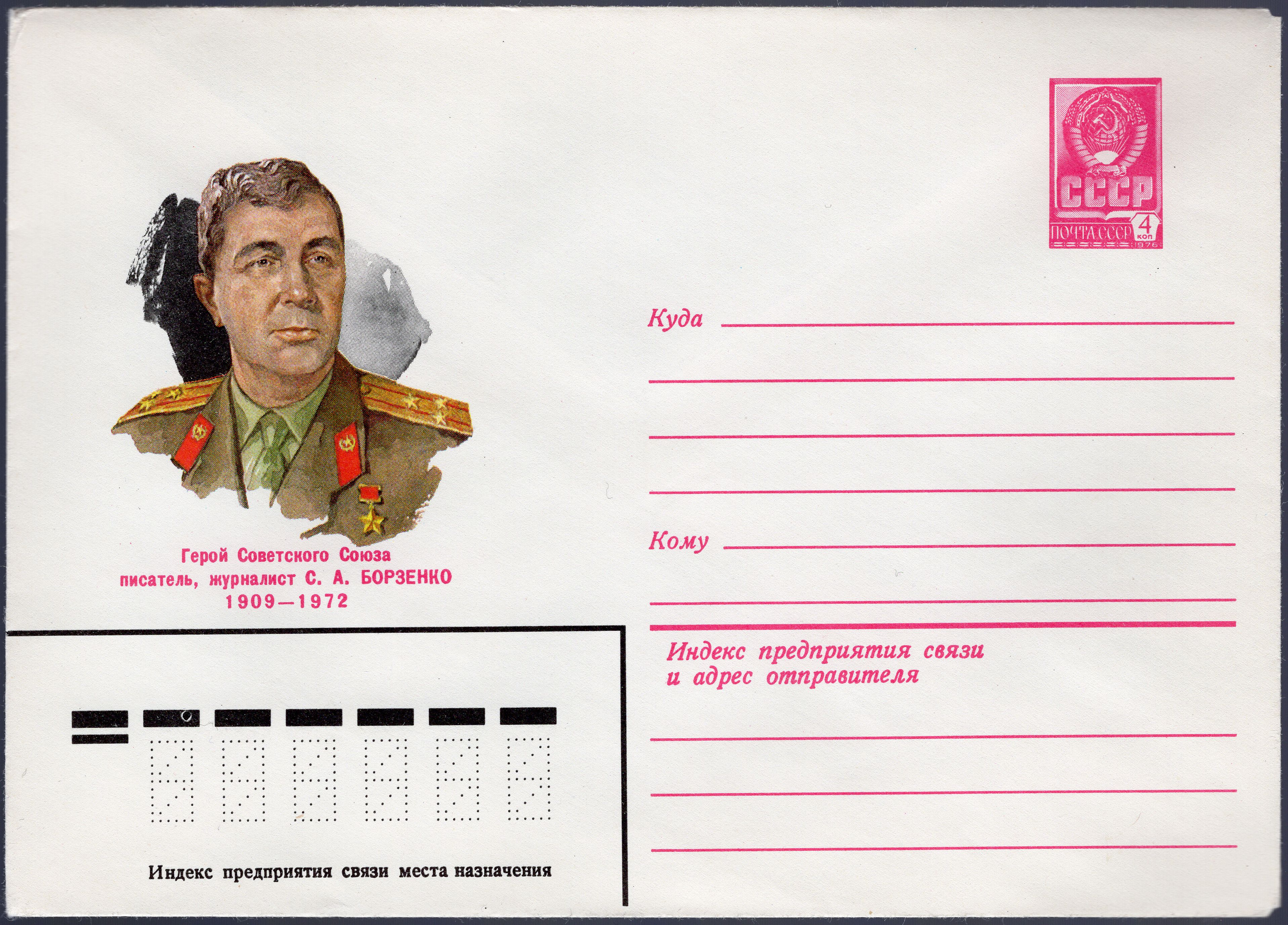 Hero of the Soviet Union writer journalist Sergey Borzenko. 1909-1972. Series: Heroes of the Soviet Union. Artist Peter Bendel.